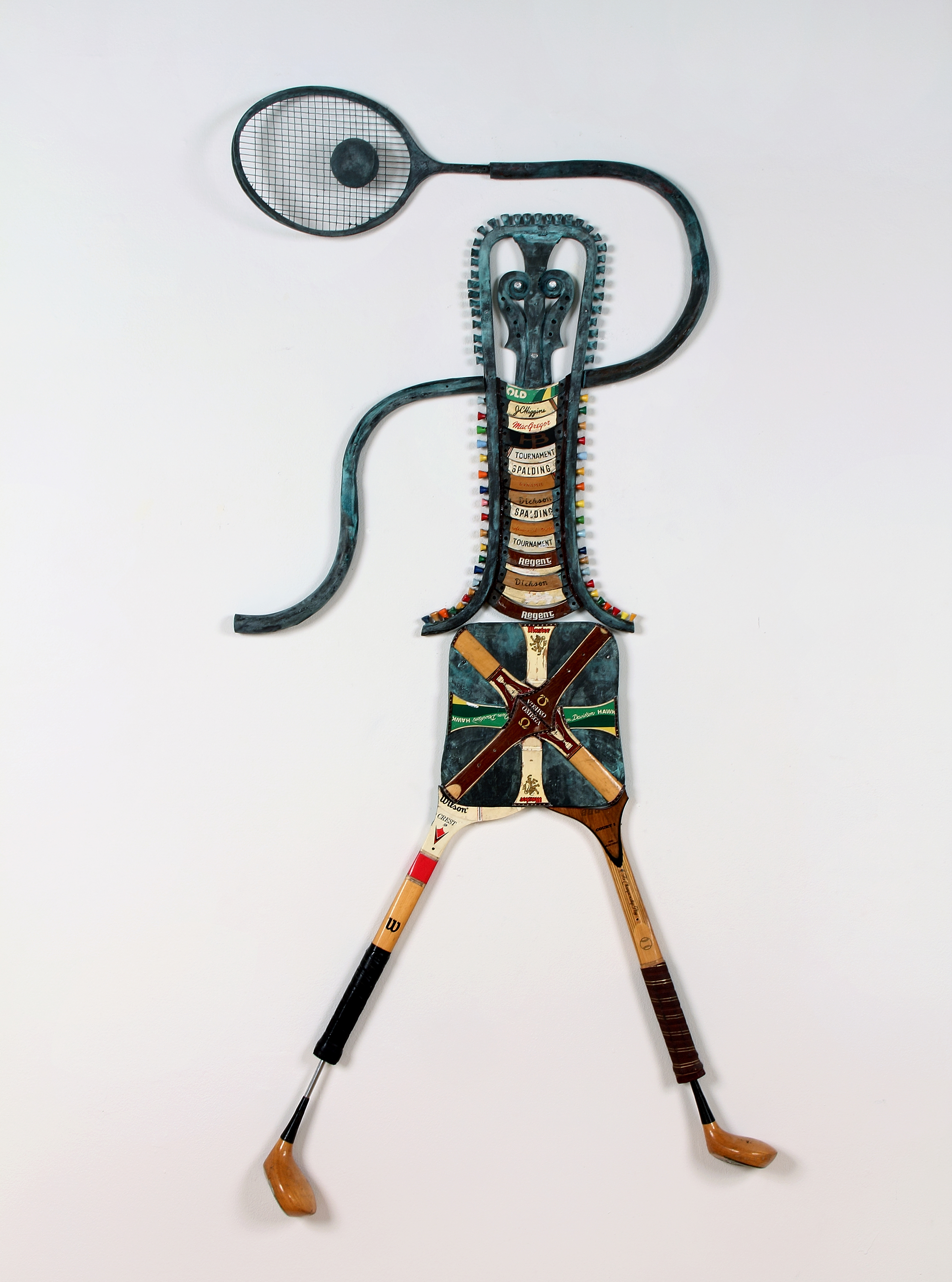 Photo of "Different Strokes", a piece created by Margaret Wharton